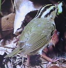 Worm-eating Warbler from US NPS